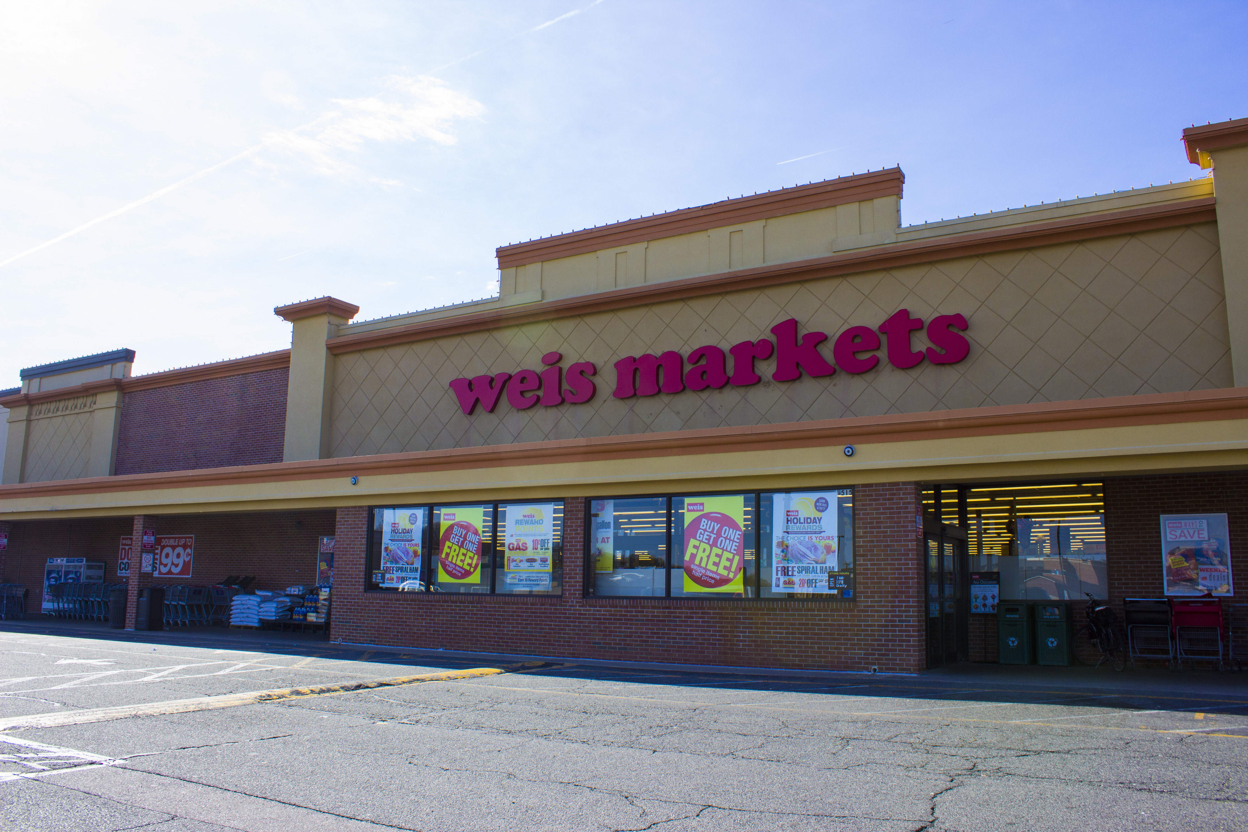 This is Weis Market #299, located in the Fredericksburg Shopping Center at 515 Jefferson Davis Highway in Fredericksburg, VA. In its former life, this store was a Food Lion receiving the Weis Markets revamp over a one-week period. This location, along with all of the other Fredericksburg locations, was sold by Delhaize to Weis amid anti-trust concerns sprouting from the Ahold Delhaize merger.